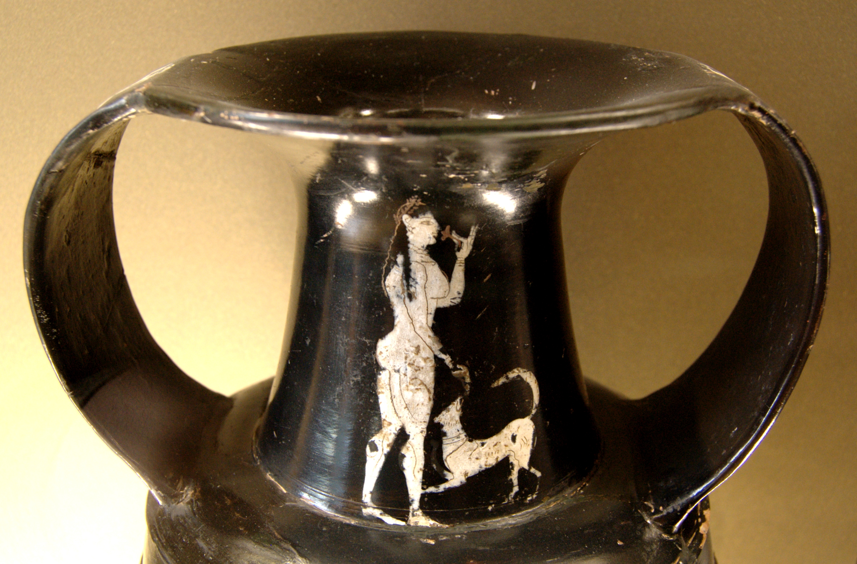 Woman and dog. Neck of an Attic “nikosthenic” amphora with decoration in superposed colours, ca. 520–510 BC.